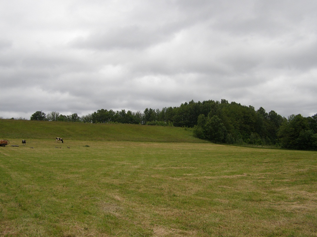 Martynaičiai hillfort, Kretinga district, Lithuania